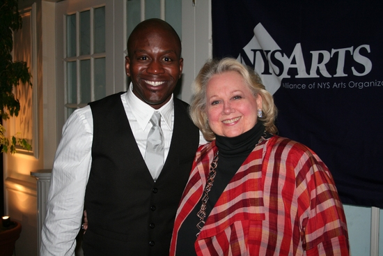 Tituss Burgess and Barbara Cook at the NYS ARTS Fall Gala 2008